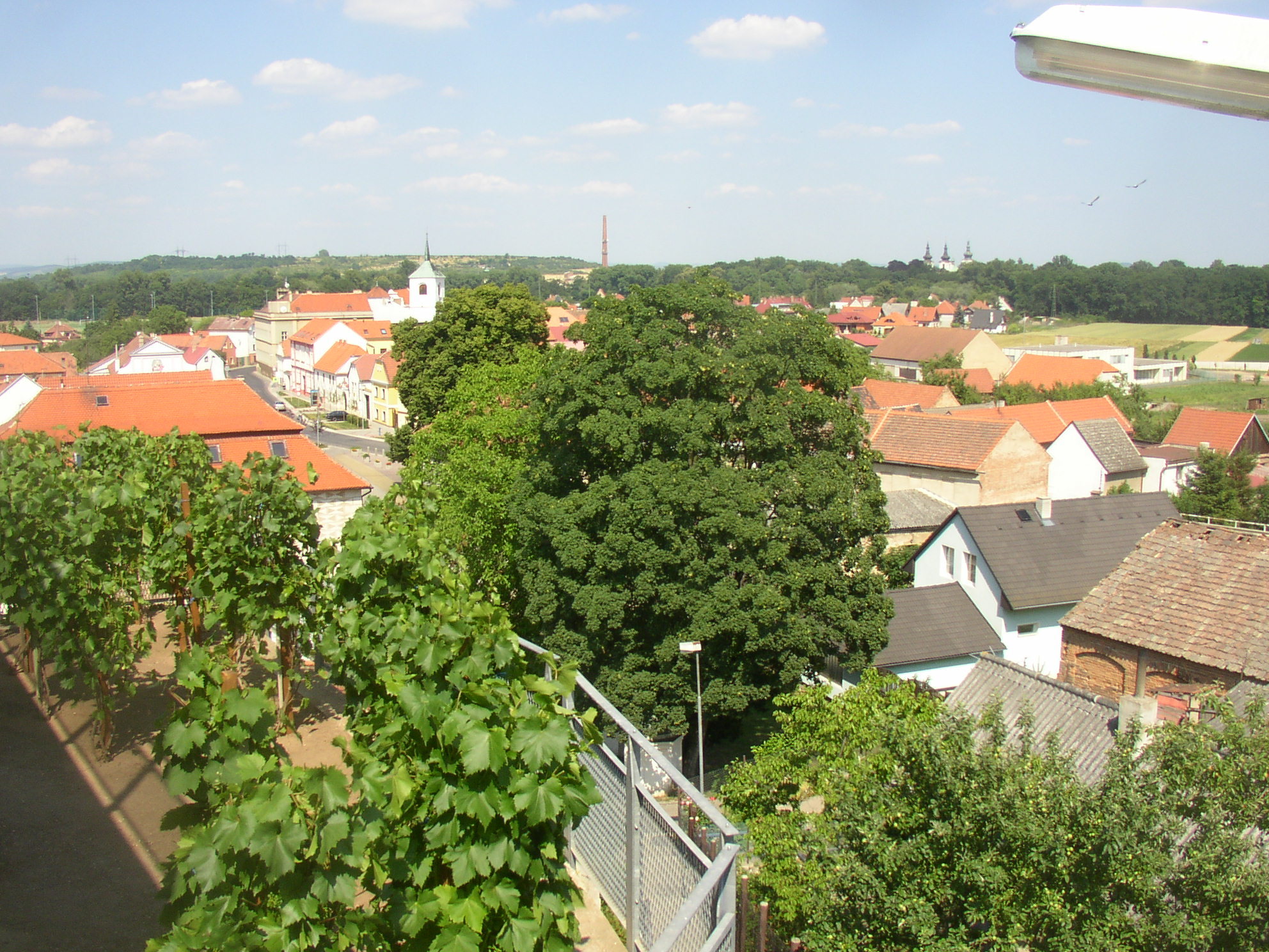 Brozany nad Ohří, Litoměřice District, Czech Republic. A view from lookout terrace of Brozany Castle in east-northeast direction over centre of the town. Thoroughfare along SE side of the square is well recognizable in the left, also the tower of St Gotthard church. The belt of treees beyond the town gives away the course of the Ohře River. On the horizon two landmarks of neighbouring village of Doksany - chimney of former sugar refinery (in the middle) and triplet of towers of church of Nativity of the Virgin Mary within Doksany Convent (in the right).